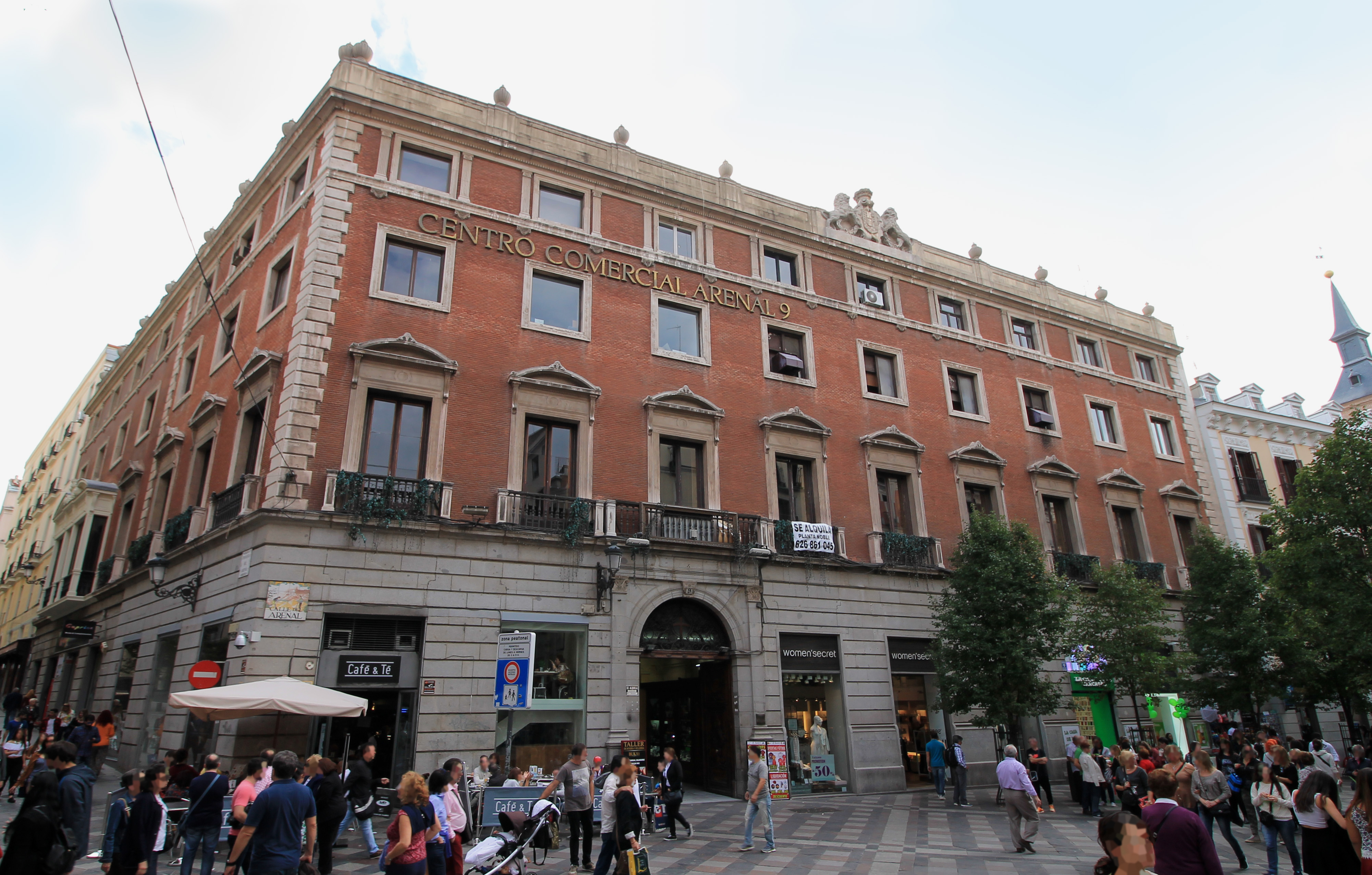 Façade of Palacio de Gaviria in Madrid (Spain).